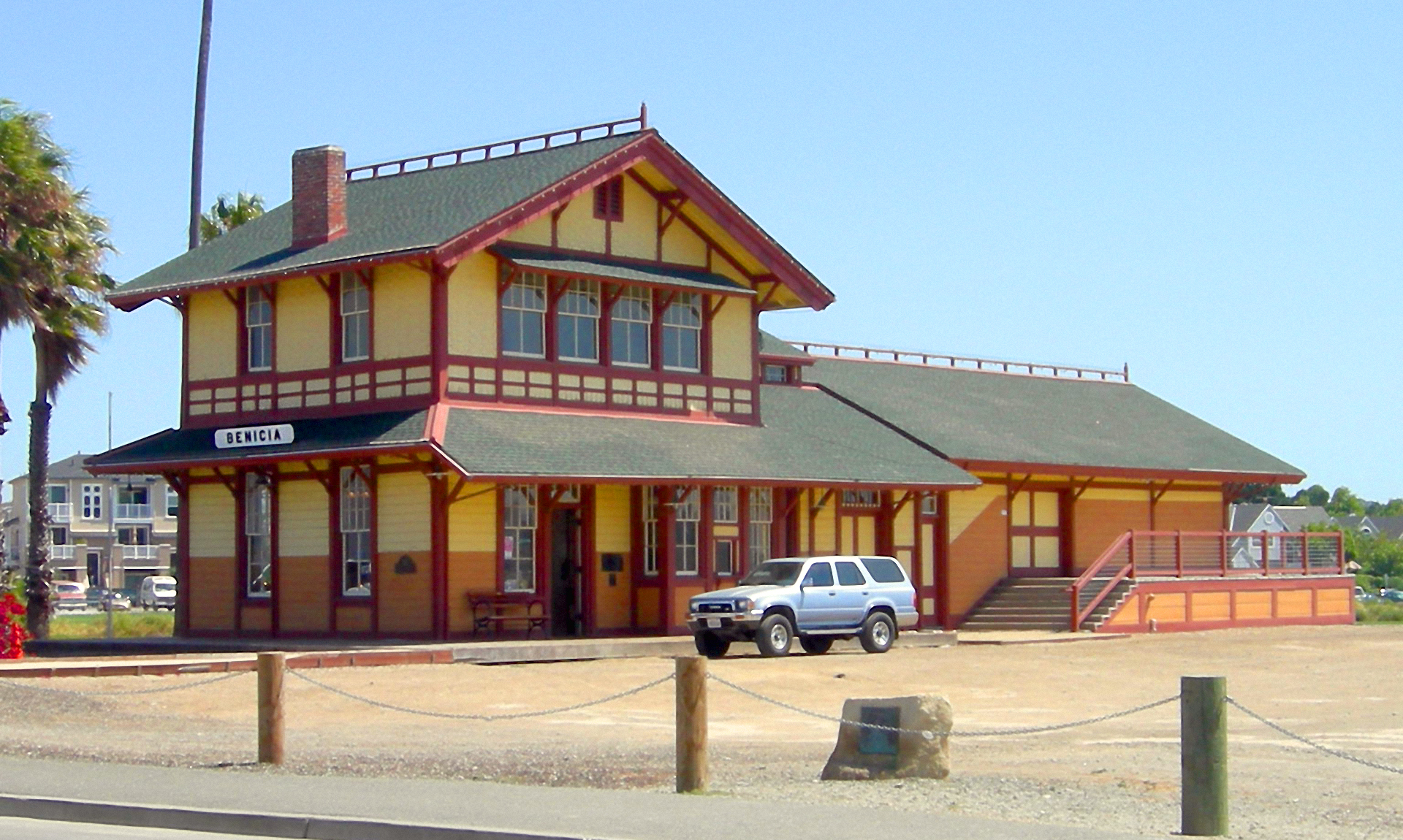 Southern Pacific Railroad rail ferry depot, Martinez, CA Built in 1902.